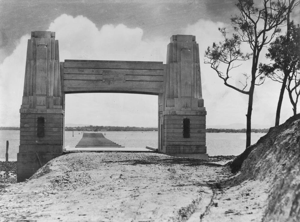 Photographer: Unidentified Location: Redcliffe, Queensland, Australia View this page at the State Library of Queensland Information about State Library of Queensland’s collection